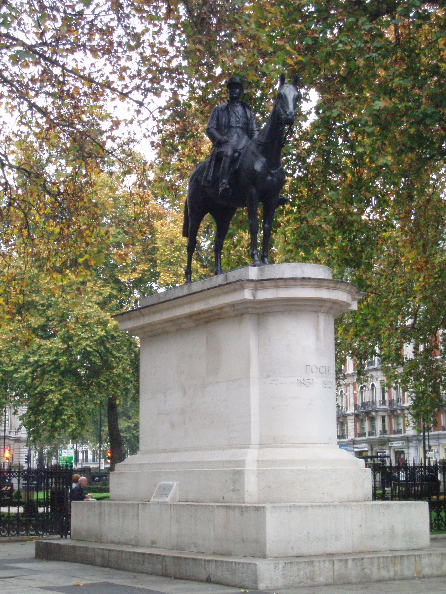 Statue of Ferdinand Foch near Victoria railway station, London, UK. Georges Malissard (1877–1942) Alternative names George MalissardDescriptionFrench sculptorDate of birth/death 3 October 1877 1942Location of birth/death Anzin Neuilly-sur-SeineAuthority control : Q16222566 VIAF: 96692888 ULAN: 500194626 RKD: 212795 creator QS:P170,Q16222566